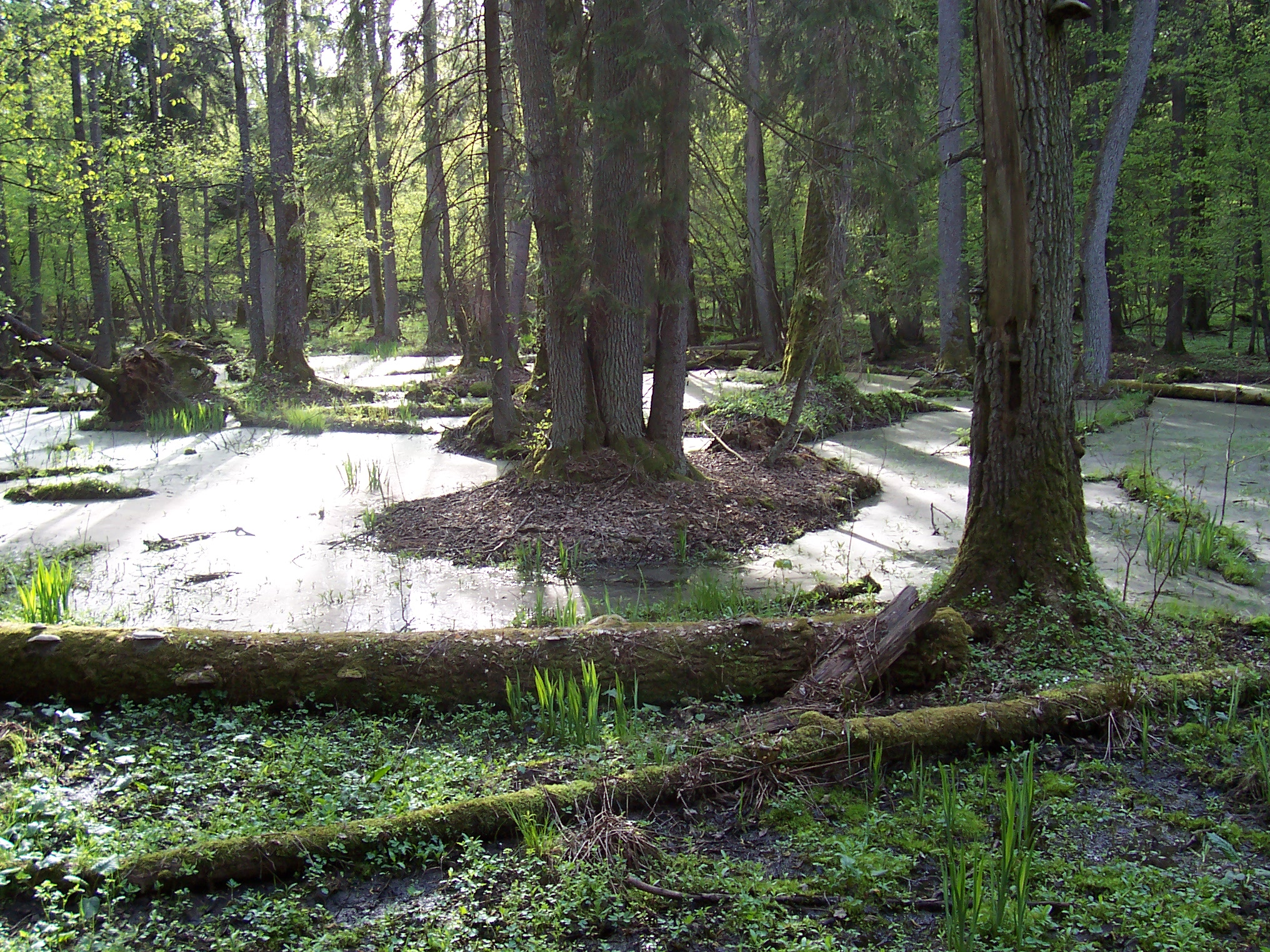 Białowieża Forest National Park